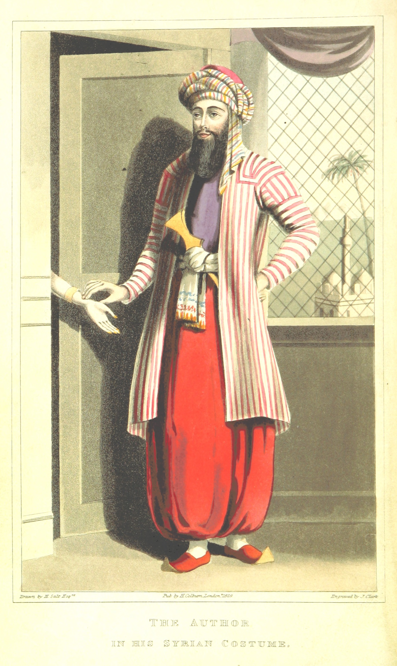 Page 10 of 'Travels in Turkey, Egypt, Nubia, and Palestine in 1824-27'